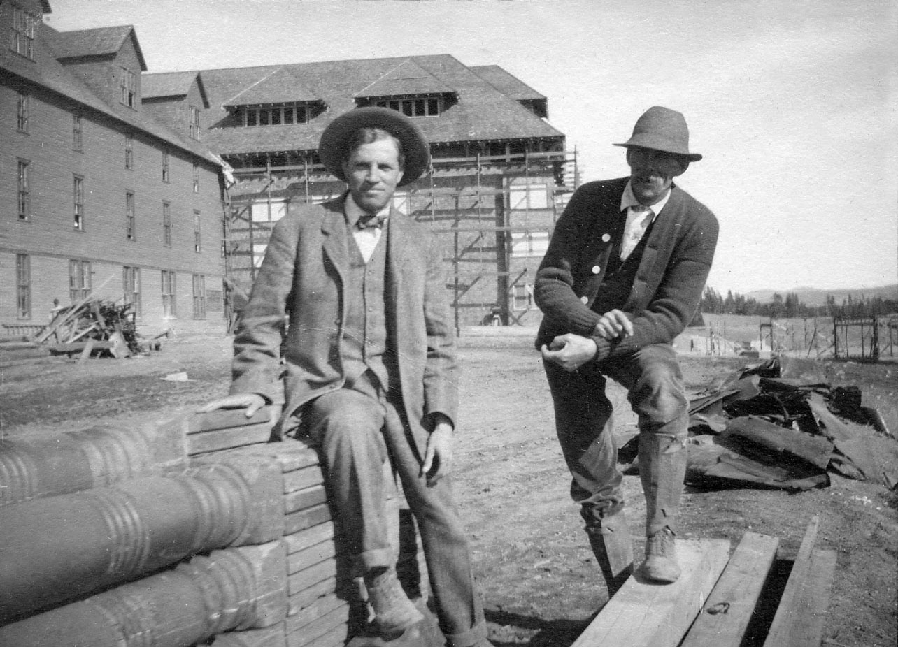 Robert Reamer and foreman Mr. George at the Canyon Hotel under construction in Yellowstone National Park, October 1910